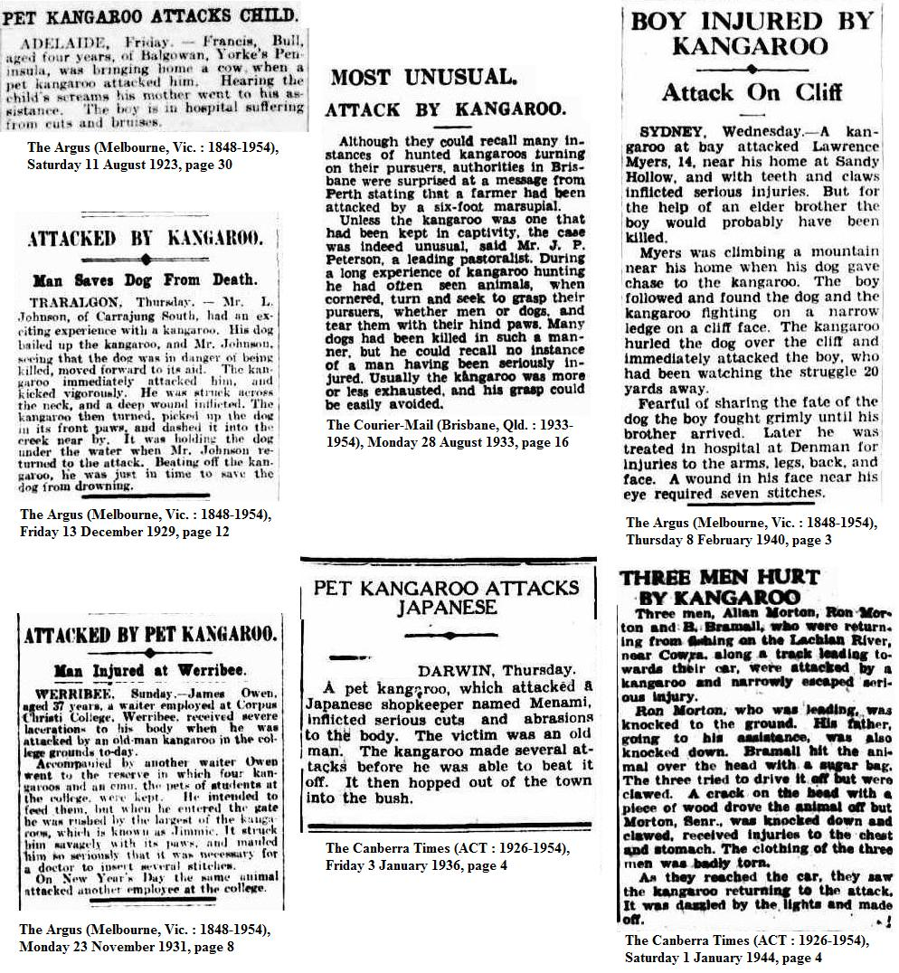 from the National Library Australian newspapers digitisation program which are pre-1955 so no copyright: "The service includes newspapers published in each state and territory from the 1800s to the mid-1950s, when copyright applies."